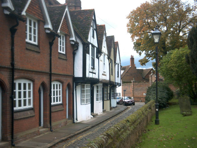 Historic houses in Aylesbury, Buckinghamshire